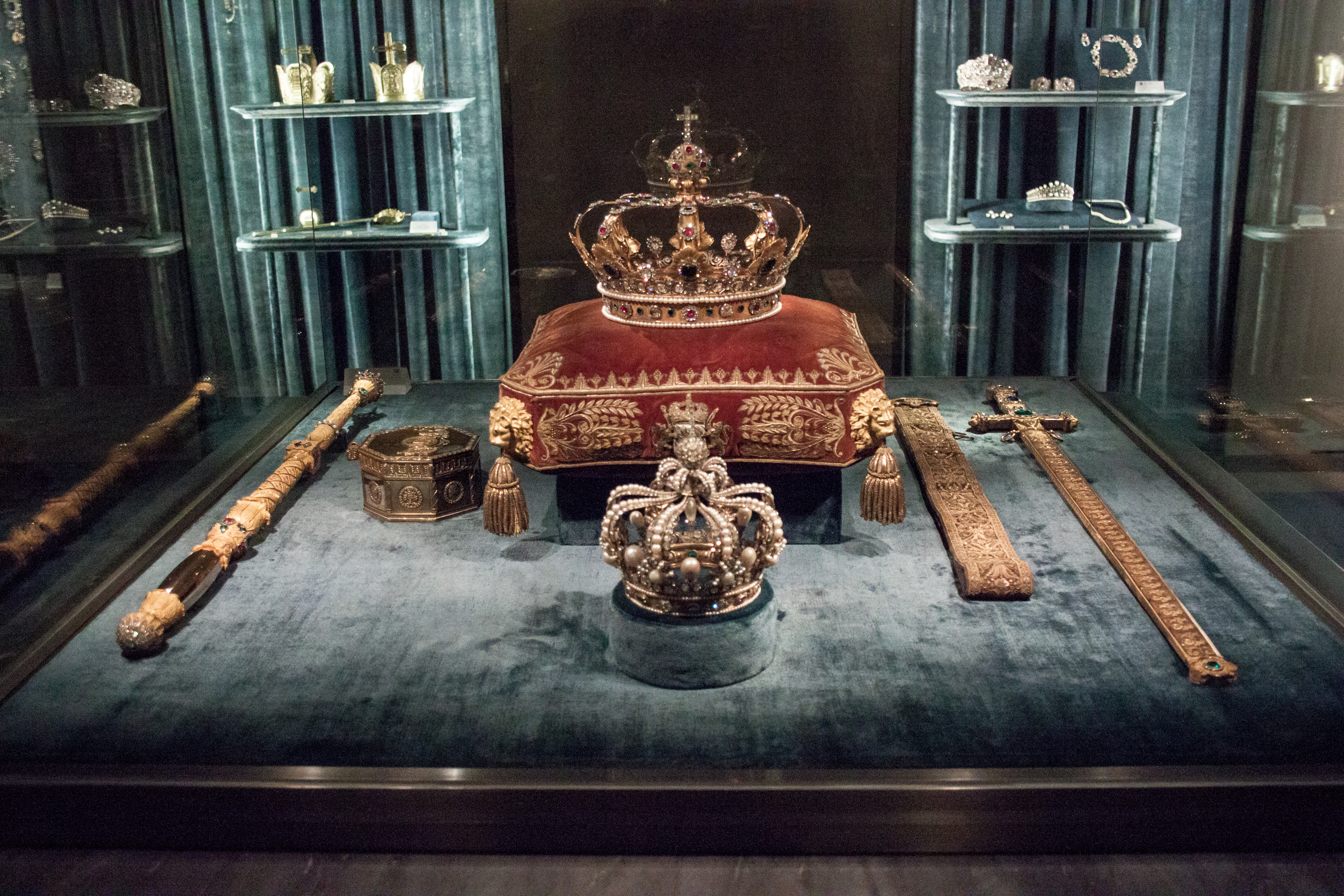 Royal Crown Juvels of Bayern, 1806